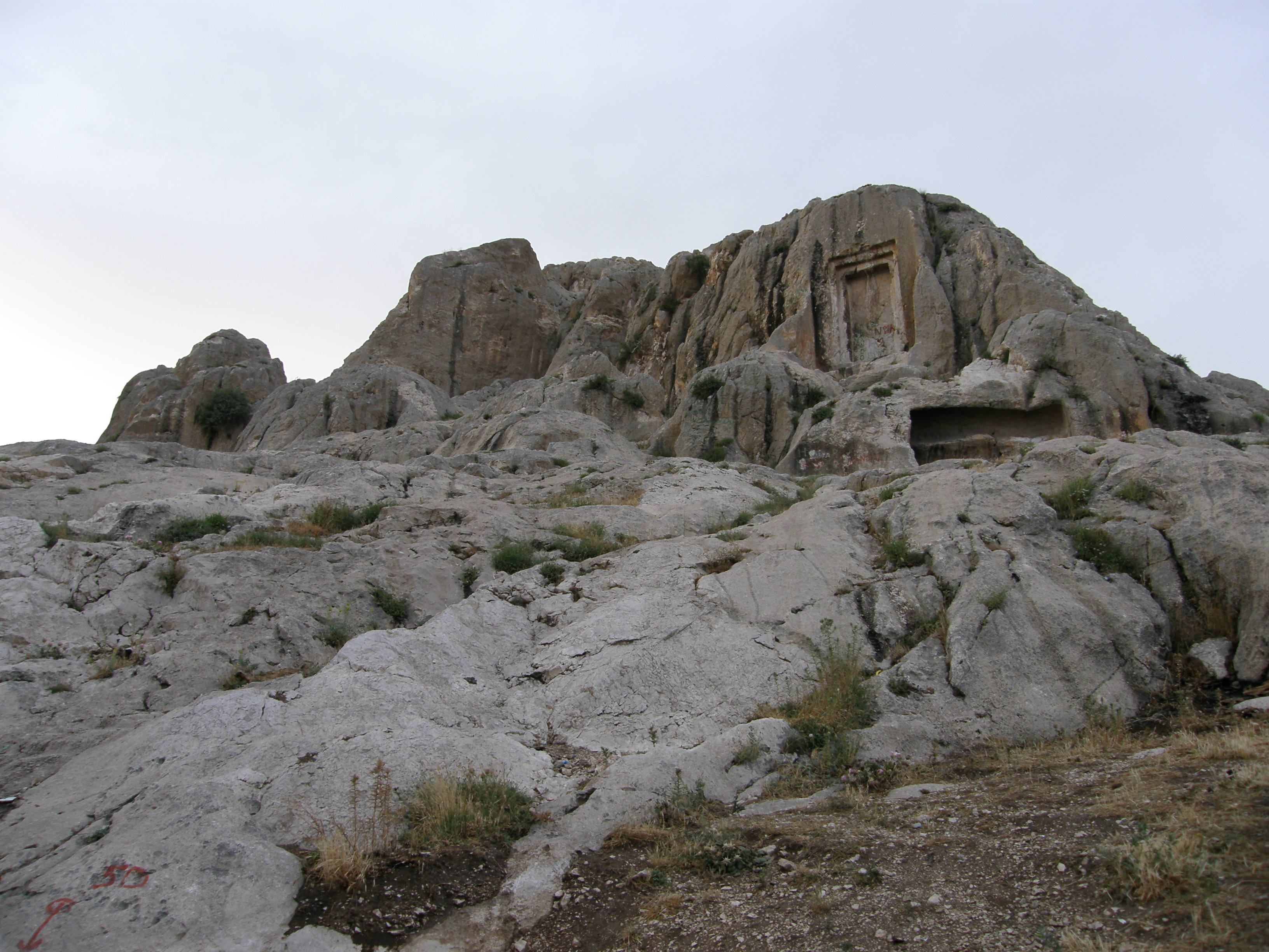 Door of Mher taken in 2009.